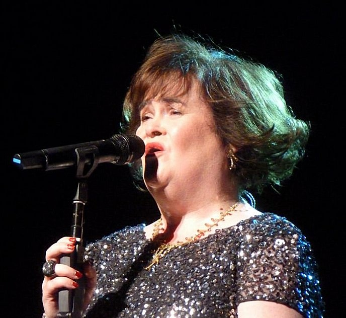 Susan Boyle singing at the Edinburgh Festival Theater, July 12, 2013